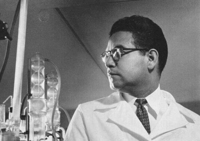 Portrait of Luis E Miramontes